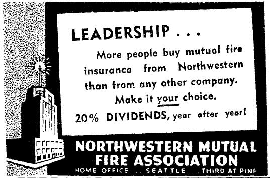 A scan of an advertisement from the northwestern Mutual Insurance Company from 1940. As printed in several Seattle area newspapers in 1940.